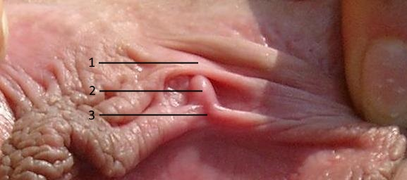 Open vulva serving as caption for external clitoris: 1. Clitoral hood 2. Clitoral glans 3. Frenulum of clitoris